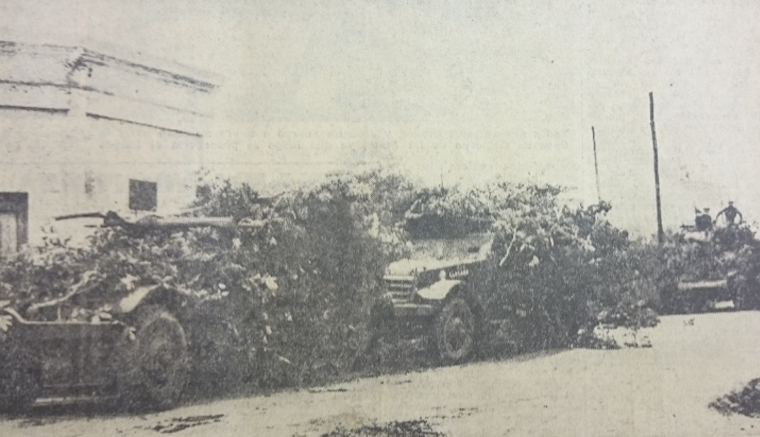 Argentina. War between Blues and Reds - Camuflaged tanks heading Punta Indio- April 3rd 1963.